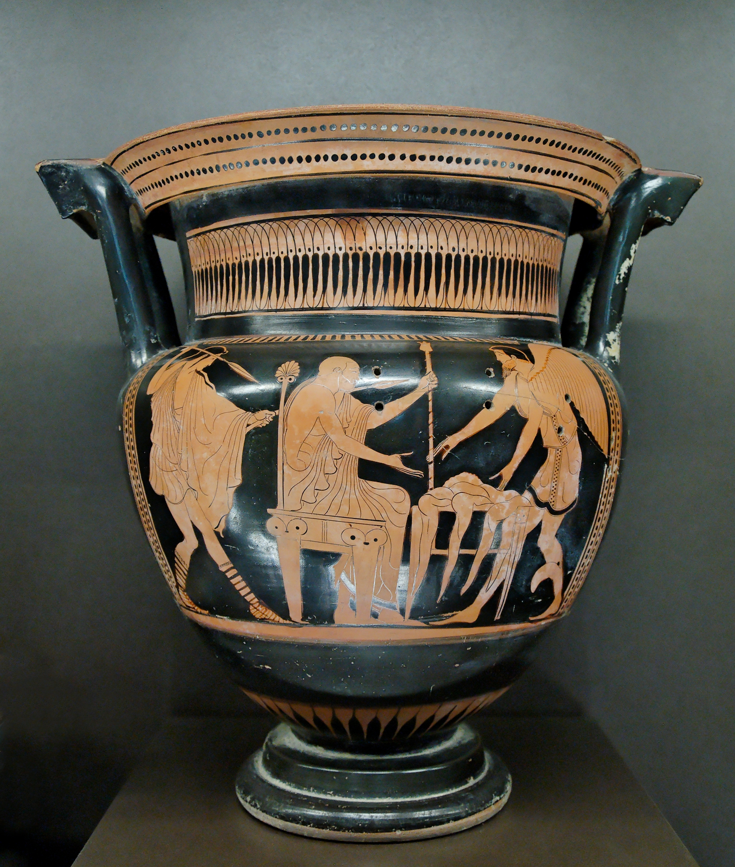 The winged Boreads (left and right) rescuing Phineas (seated) from the Harpies. Side A from an Attic red-figure column-krater, ca. 460 BC. From Altamura.